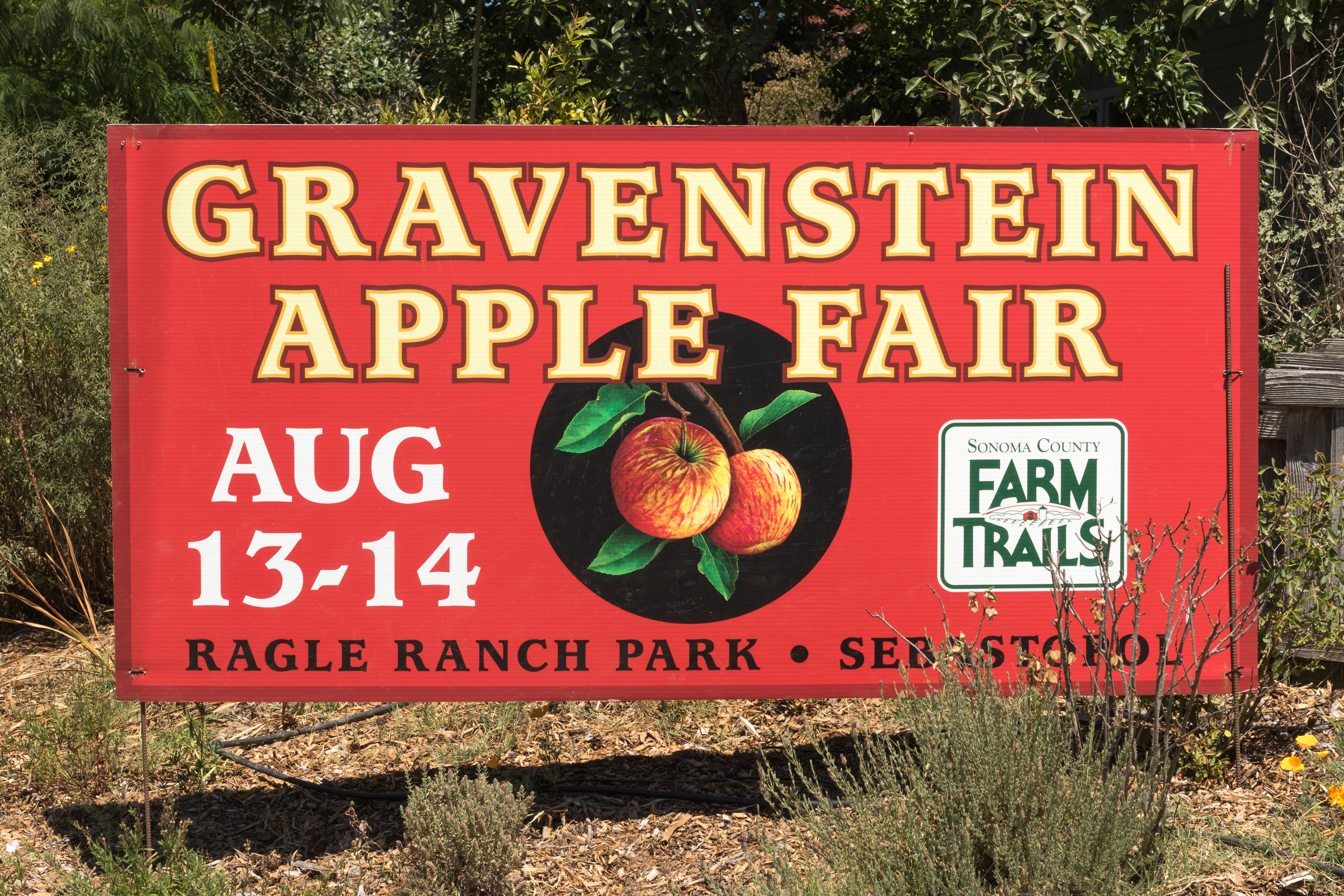 Gravenstein Apple Fair 2016 in Sebastopol, Sonoma County, California